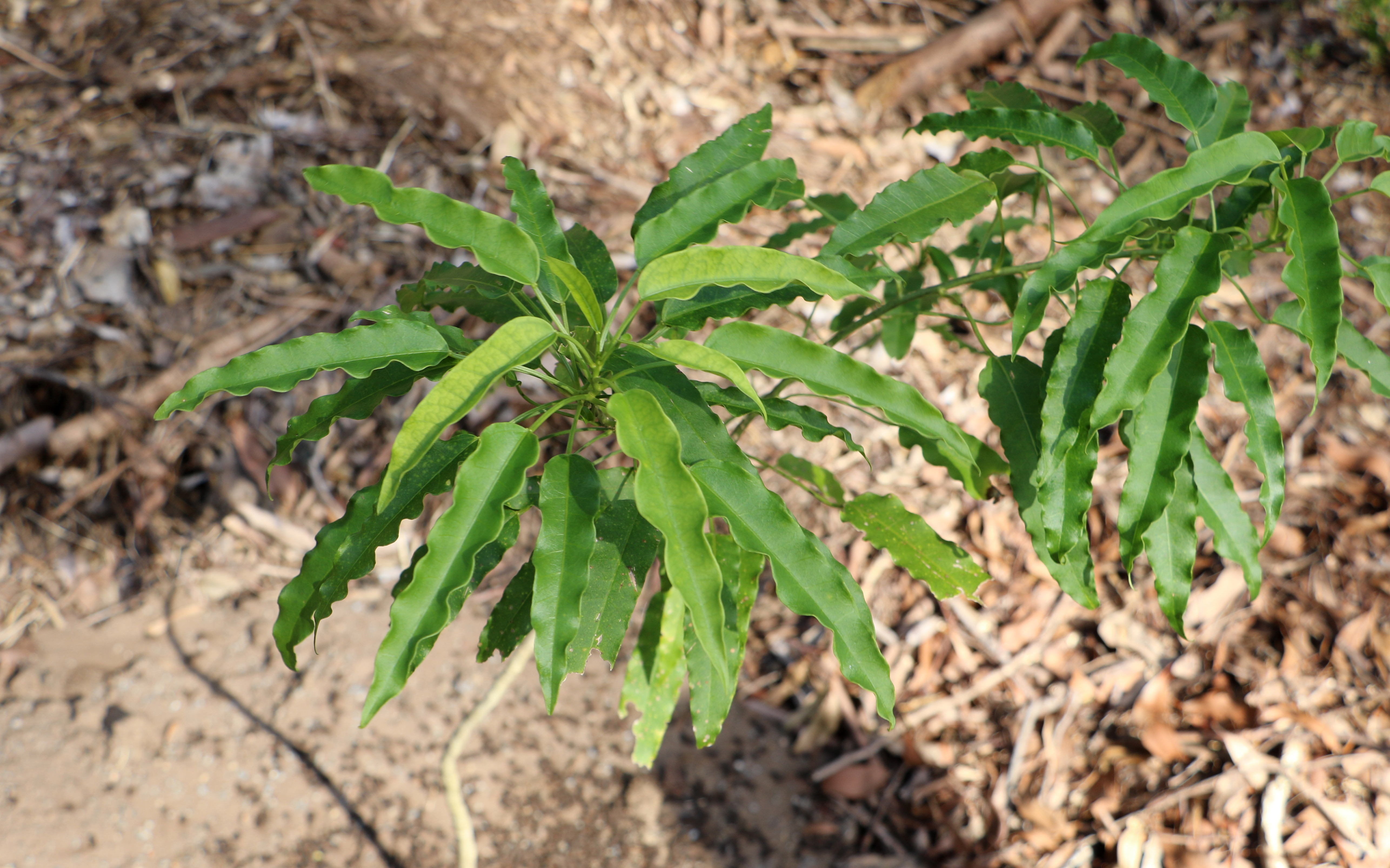 Omphalea cellata juvenile